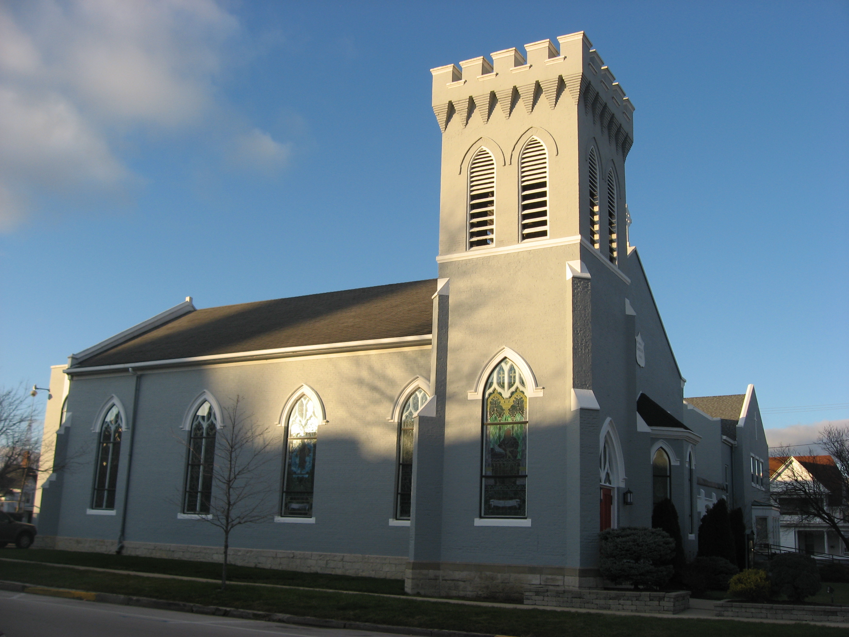 Front and southern side of St. Paul's Episcopal Church, located at 200 N. Park Avenue in Fremont, Ohio, United States. Built in 1843, it is listed on the National Register of Historic Places.